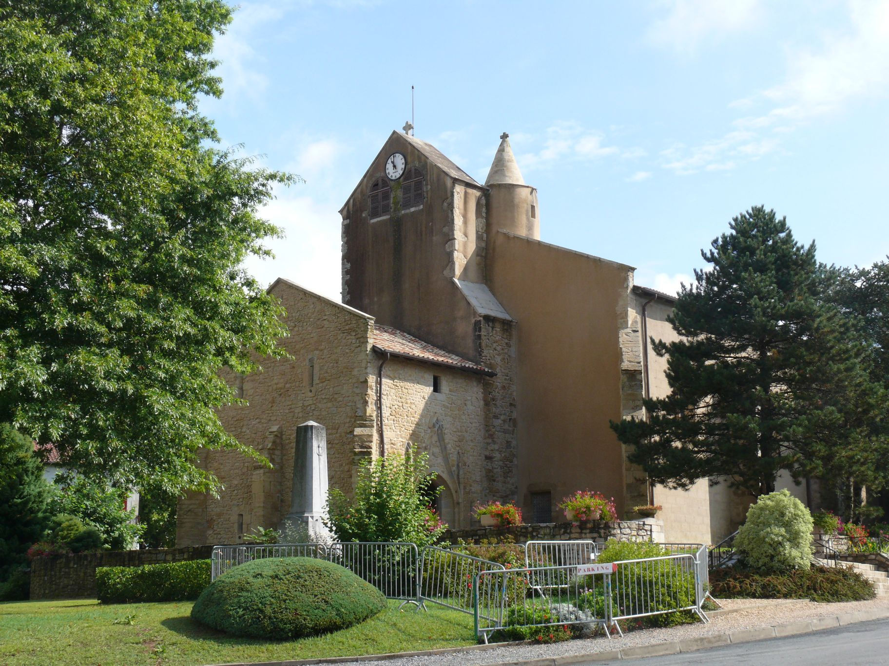 Our Lady's church in Sainte-Marie-de-Gosse (Landes, France)